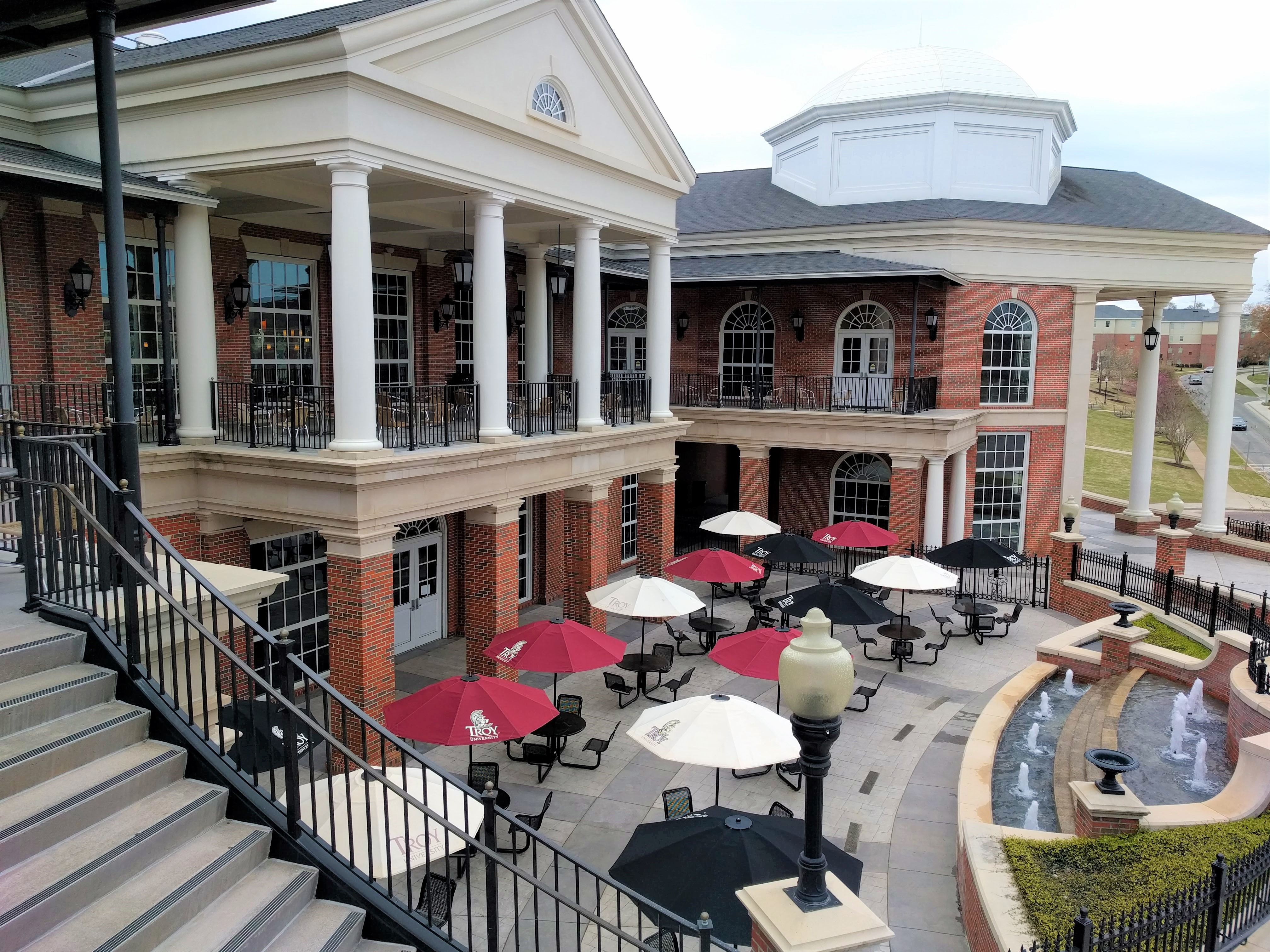 An outside view of the Trojan Dining Hall.